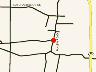 Fanlew, Jefferson County, Florida.